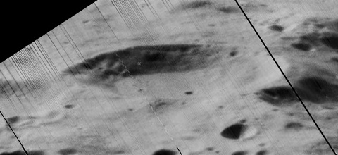 Oblique view of Engel'gardt (Engelhardt), on the far side of the moon, facing west. A point on the east rim is the highest point on the moon. Dark diagonal lines are artifacts of reprocessing.